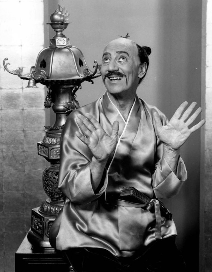 Photo of Groucho Marx as Koko the Lord High Executioner in a performance of The Mikado from the television program The Bell Telephone Hour.